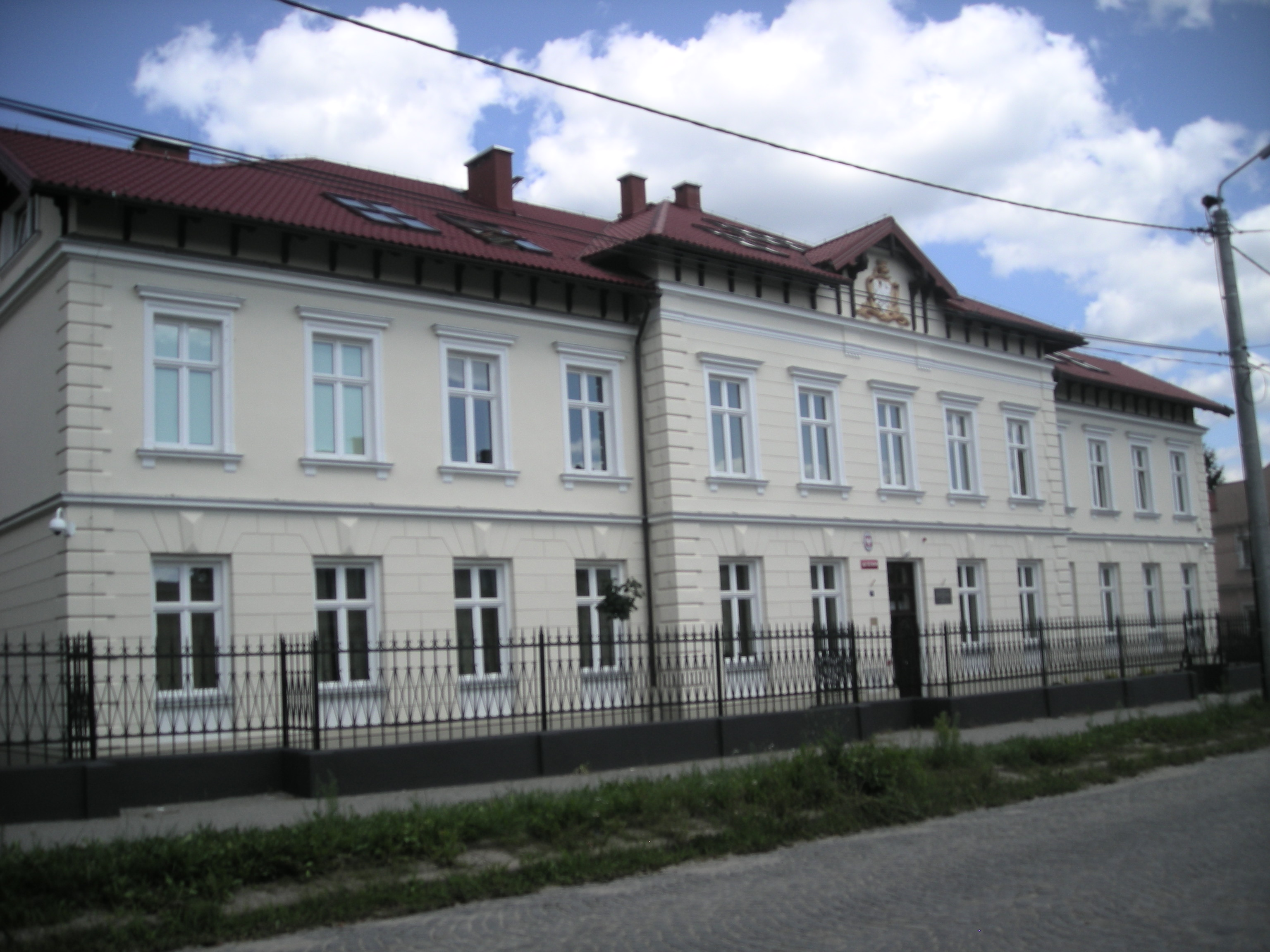 Kosciuszki Street 15, Mielec, Poland